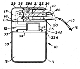 World's first Lithium-iodide cell powered pacemaker. Cardiac Pacemakers Inc. 1972